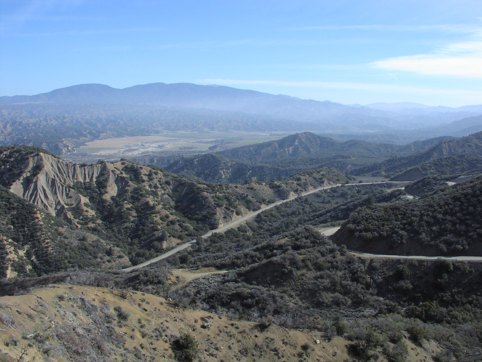 State Route 33 and the Lockwood Valley, with Mount Pinos and the San Emigdio Mountains. Located in Ventura County, California. Photographed from Pine Mountain Summit (~5000' msl); On 3/8/2008 by User:Antandrus; GFDL